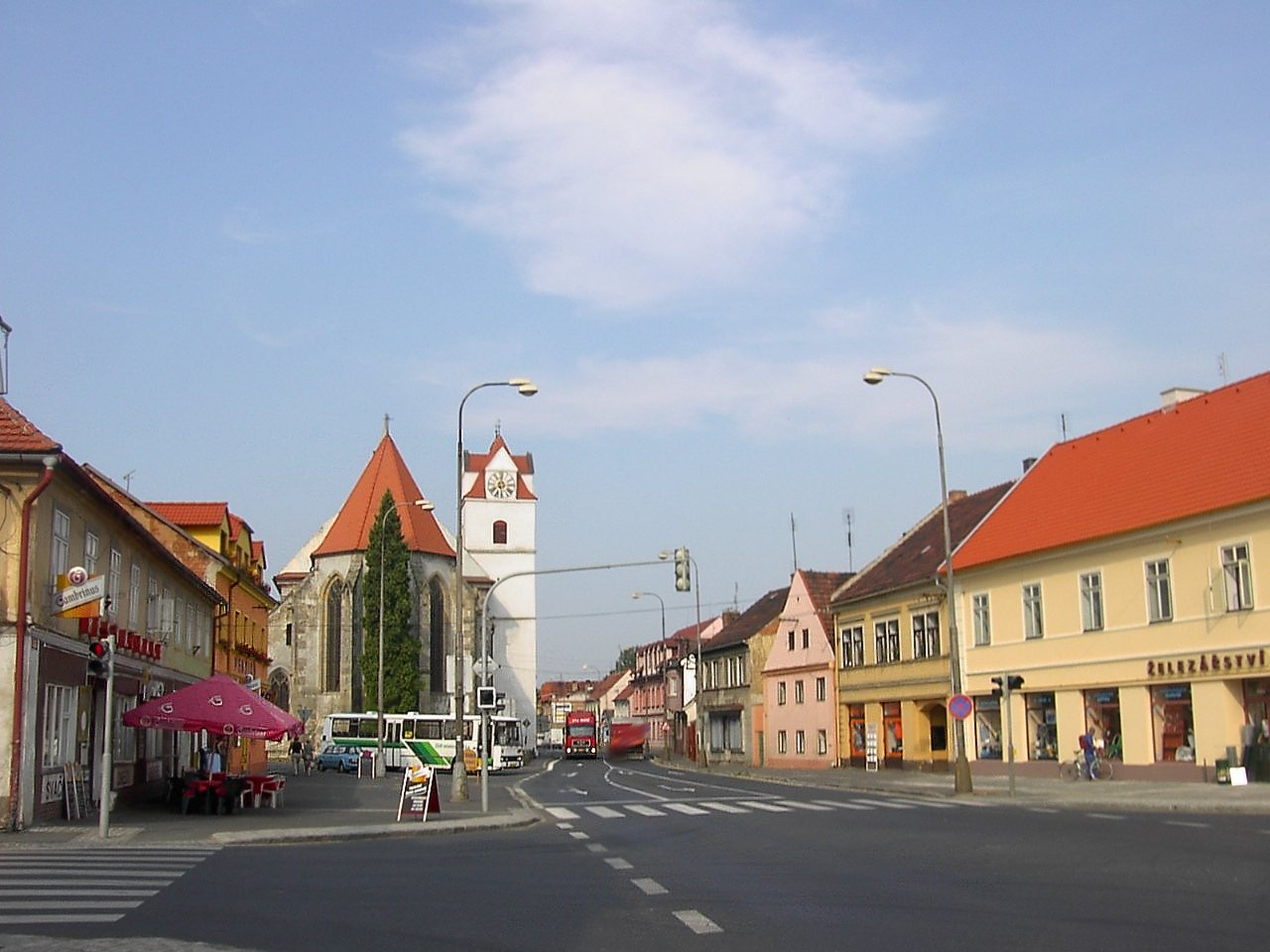 gothic saint Apolinaire church in Horšovský Týn.